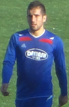 Mohammad Abshak, Damash vs Fajr